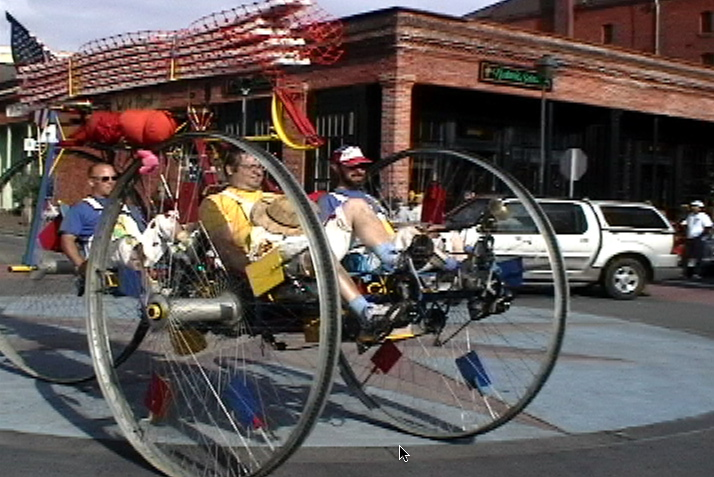 A kinetic sculpture enters Old Town Eureka at 2nd and F Streets.